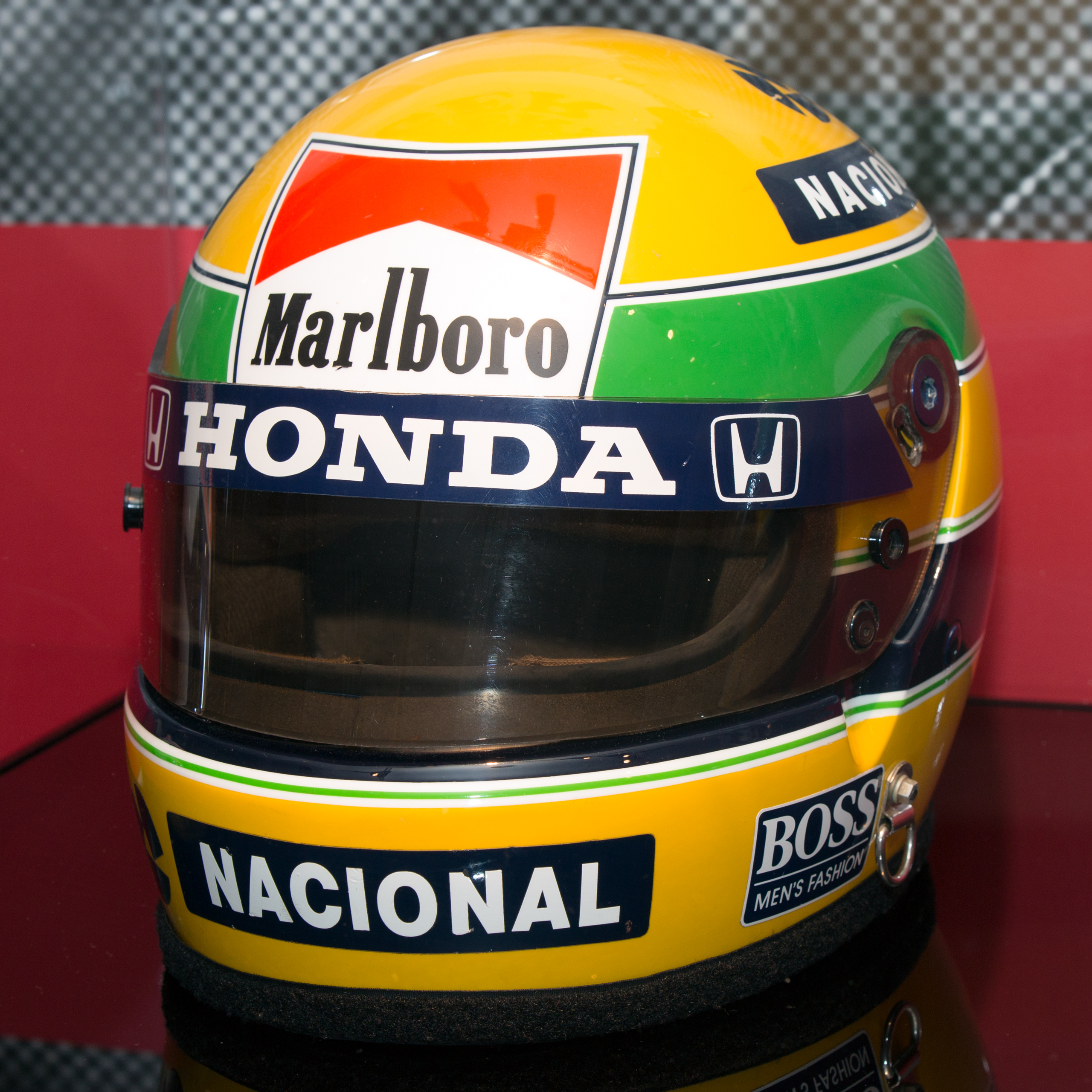 Ayrton Senna's 1988 helmet